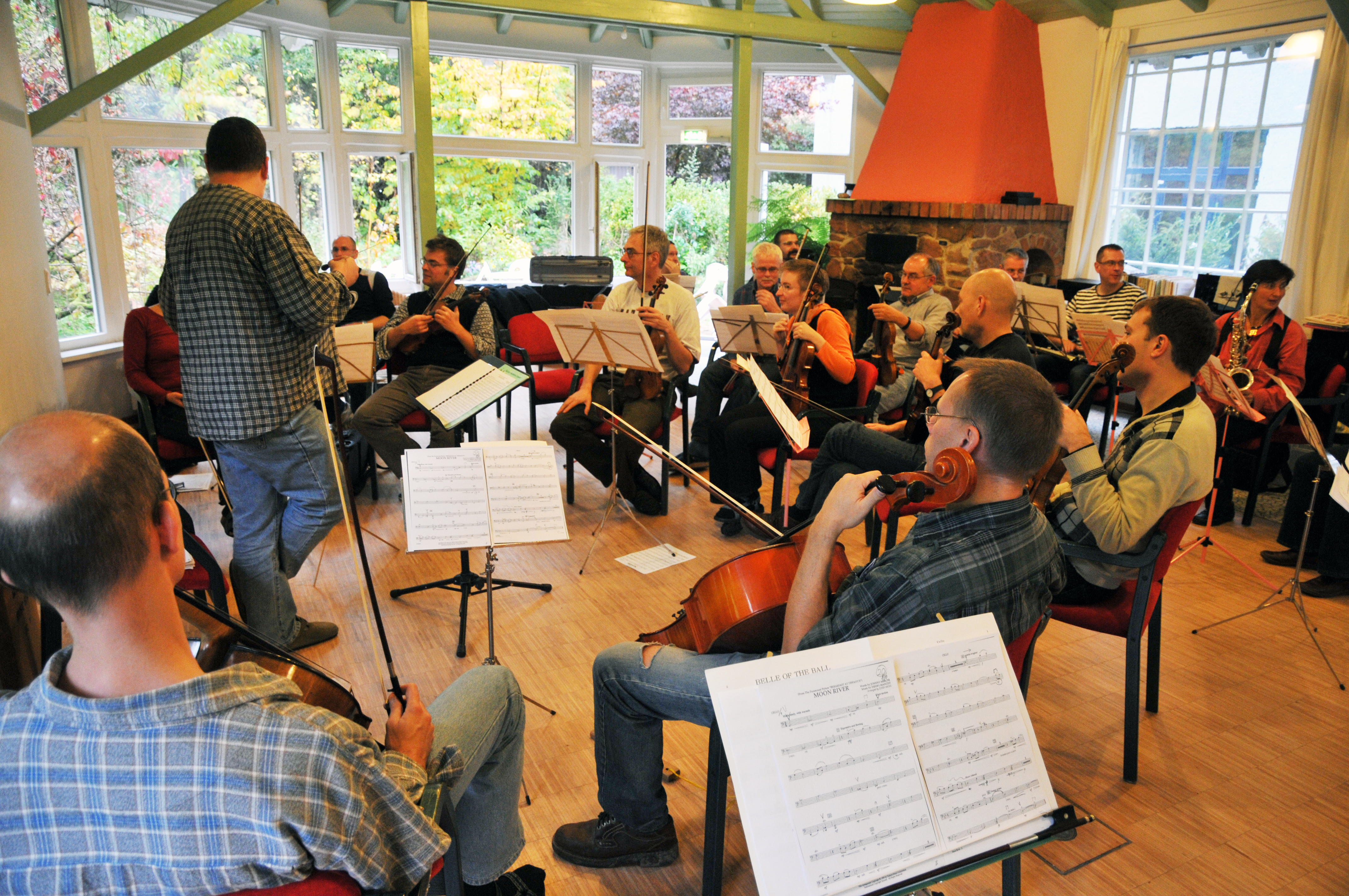 Waldschlösschen